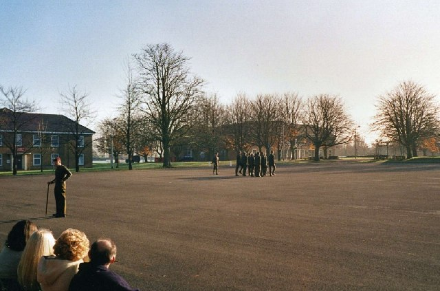 On Parade. A passing-out parade at Bassingbourne army base, near Royston, Herts.